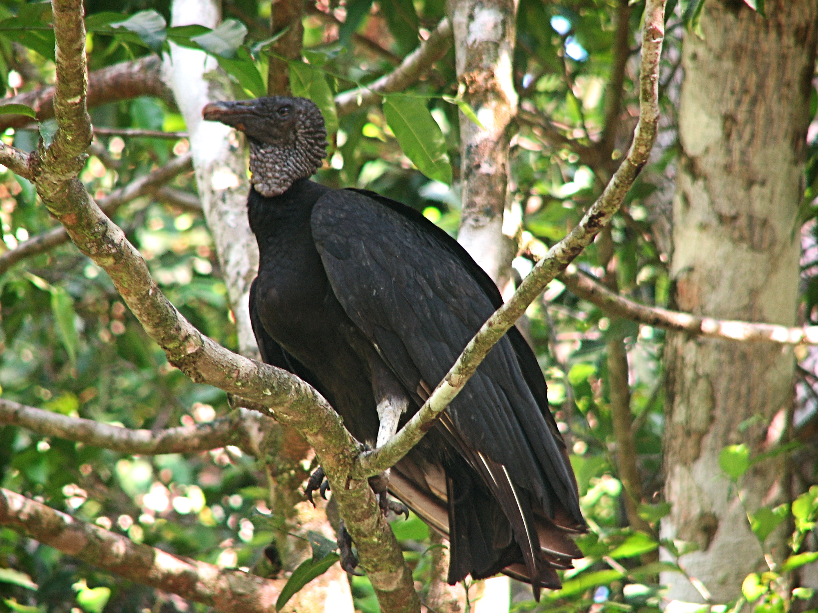 Southern American Black Vulture (Coragyps atratus brasiliensis), Manuel Antonio National Park, Costa Rica